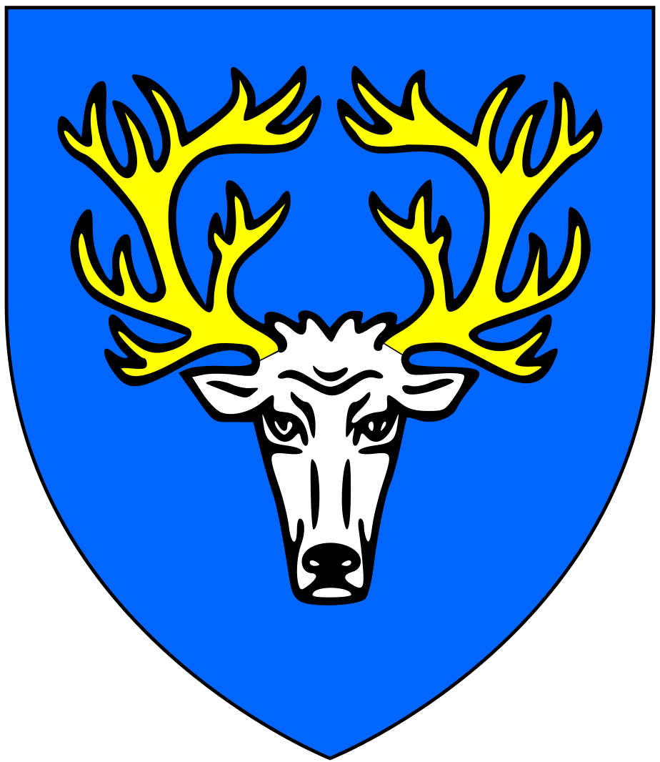 Arms of Trethurffe of Trethurffe in the parish of Ladock, near Truro, in Cornwall: Azure, a buck's head cabossed argent attired or (Source: Vivian, John Lambrick, ed., The Visitations of Cornwall: comprising the Heralds' Visitations of 1530, 1573 & 1620; with additions by J.L. Vivian, Exeter, 1887, p.497, pedigree of Trethurffe of Trethurffe[1])